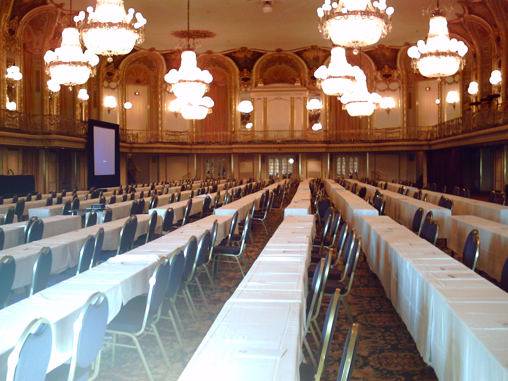 Grand ballroom of Hilton Chicago prepared for the ABA Techshow